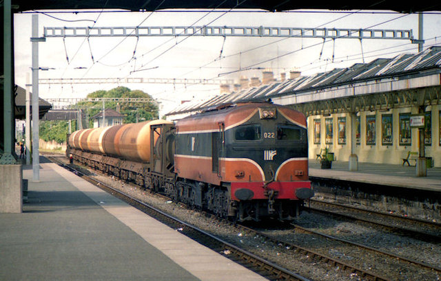 An Irish train carrying ammonia to cork in 1991